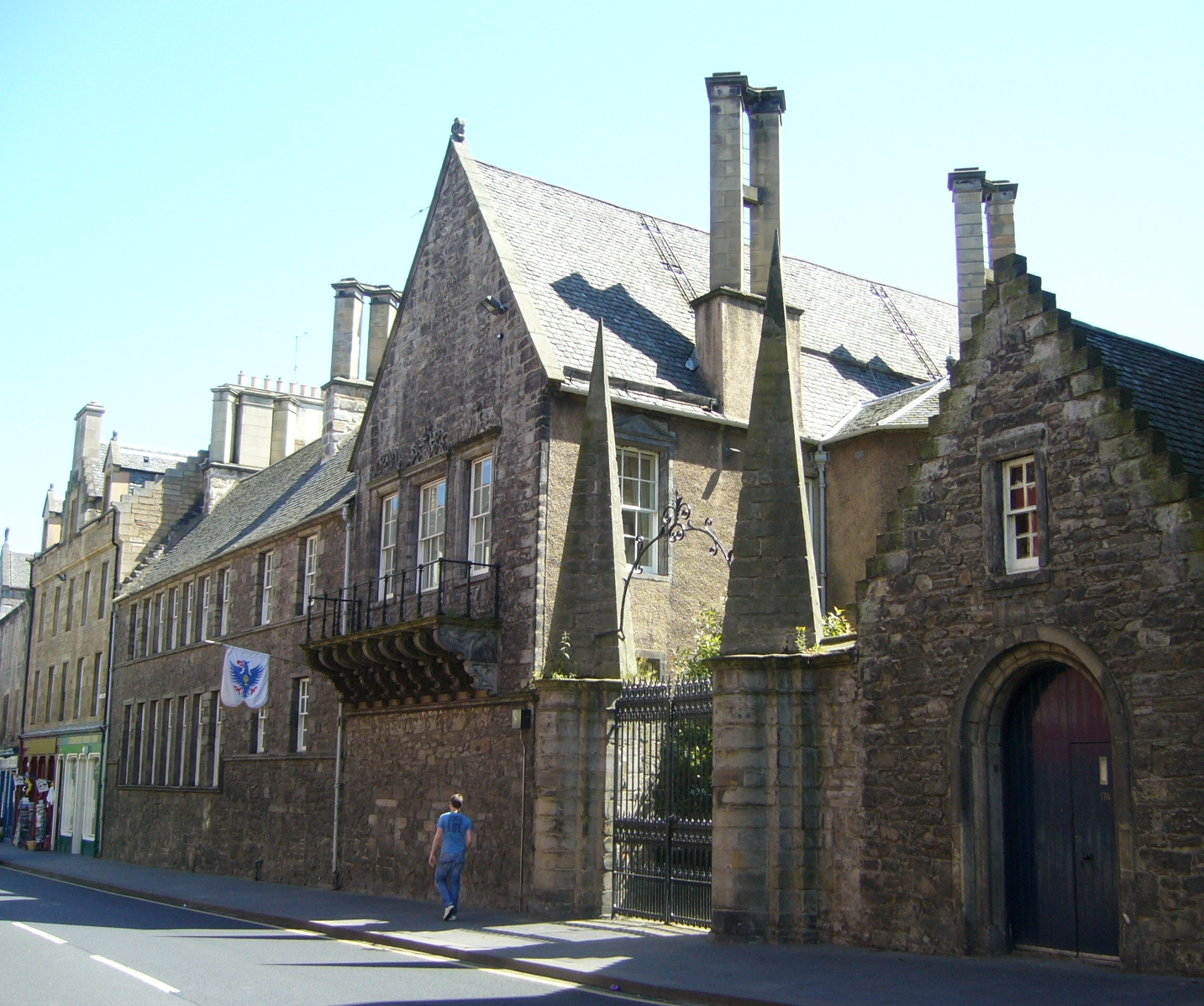 One of the finest mansion houses in the Royal Mile. Built by the Countess of Home in 1628, it passed to its new owner, the Countess of Moray, in 1645. It is believed that Cromwell resided here when he met representatives of the General Assembly of the Church of Scotland in 1648 and after the Battle of Dunbar in 1650.